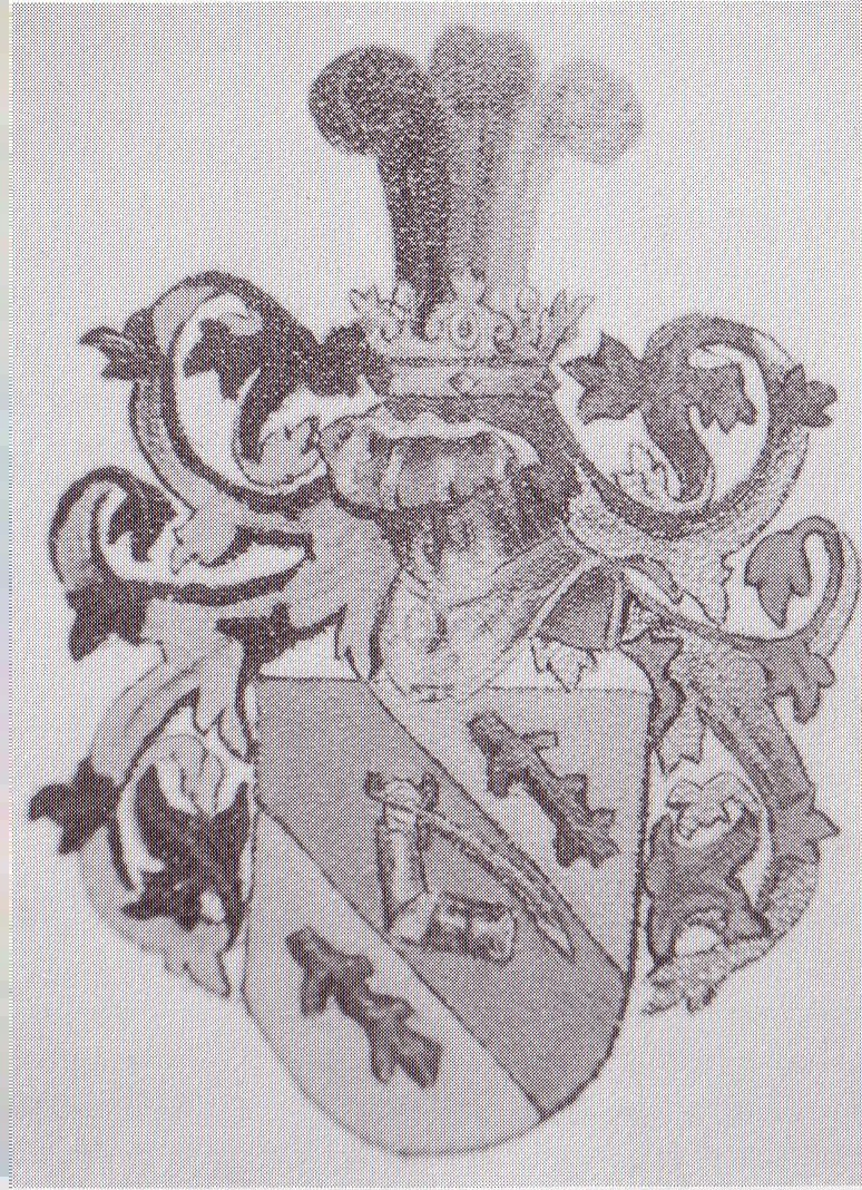 Coat of Arms of german family von Gottberg